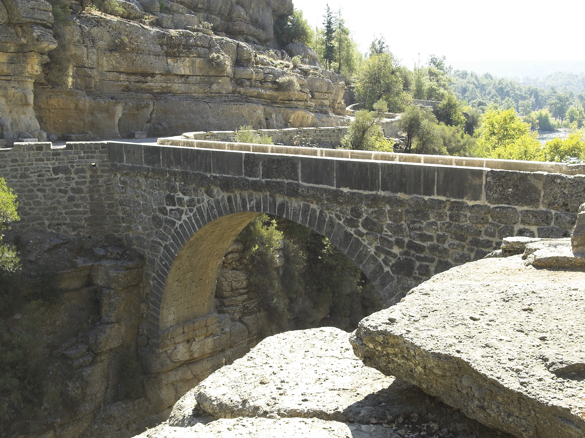 The Eurymedon Bridge (Oluk Köprü) near Selge, Pisidia, Turkey